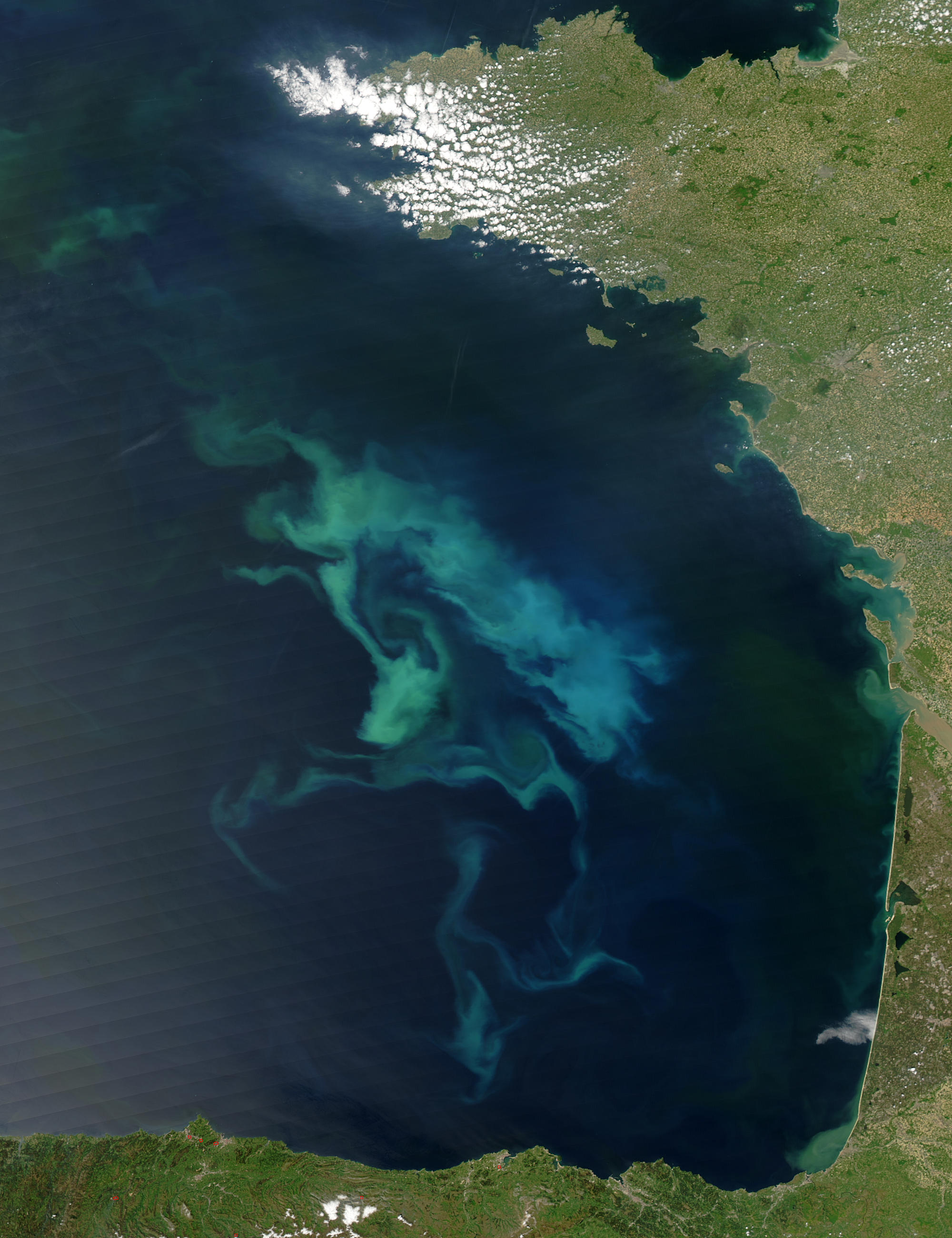 Phytoplankton|Phytoplankton bloom in the Bay of Biscay. Satellite: Aqua (EOS PM-1). Pixel size: 250m.